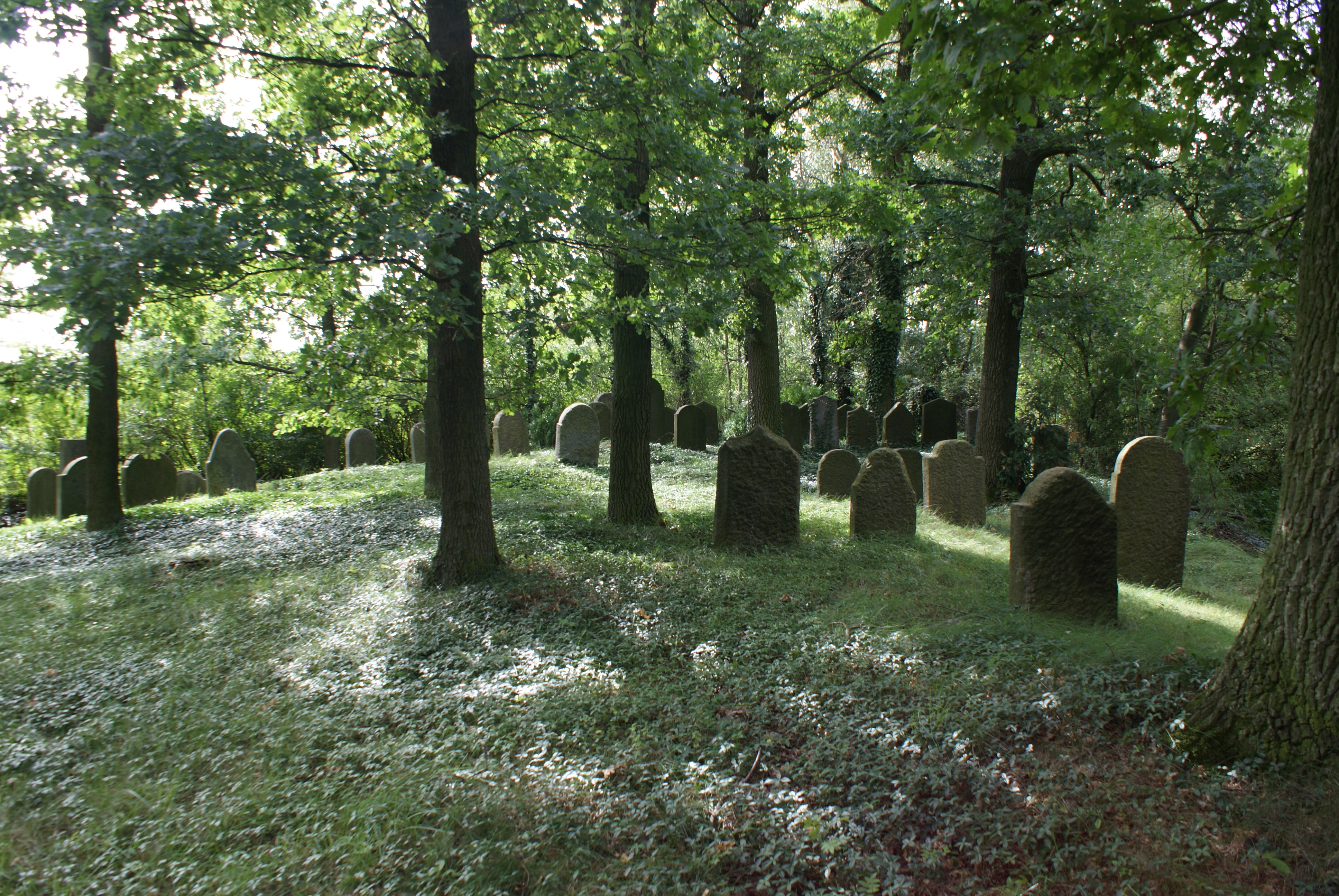 Jewish cemetery in Zalužany, Příbram district, Czech Republic.